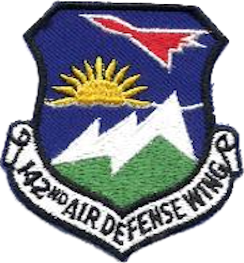 142d Air Defense Wing - Emblem